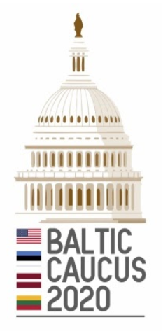 House Baltic Caucus